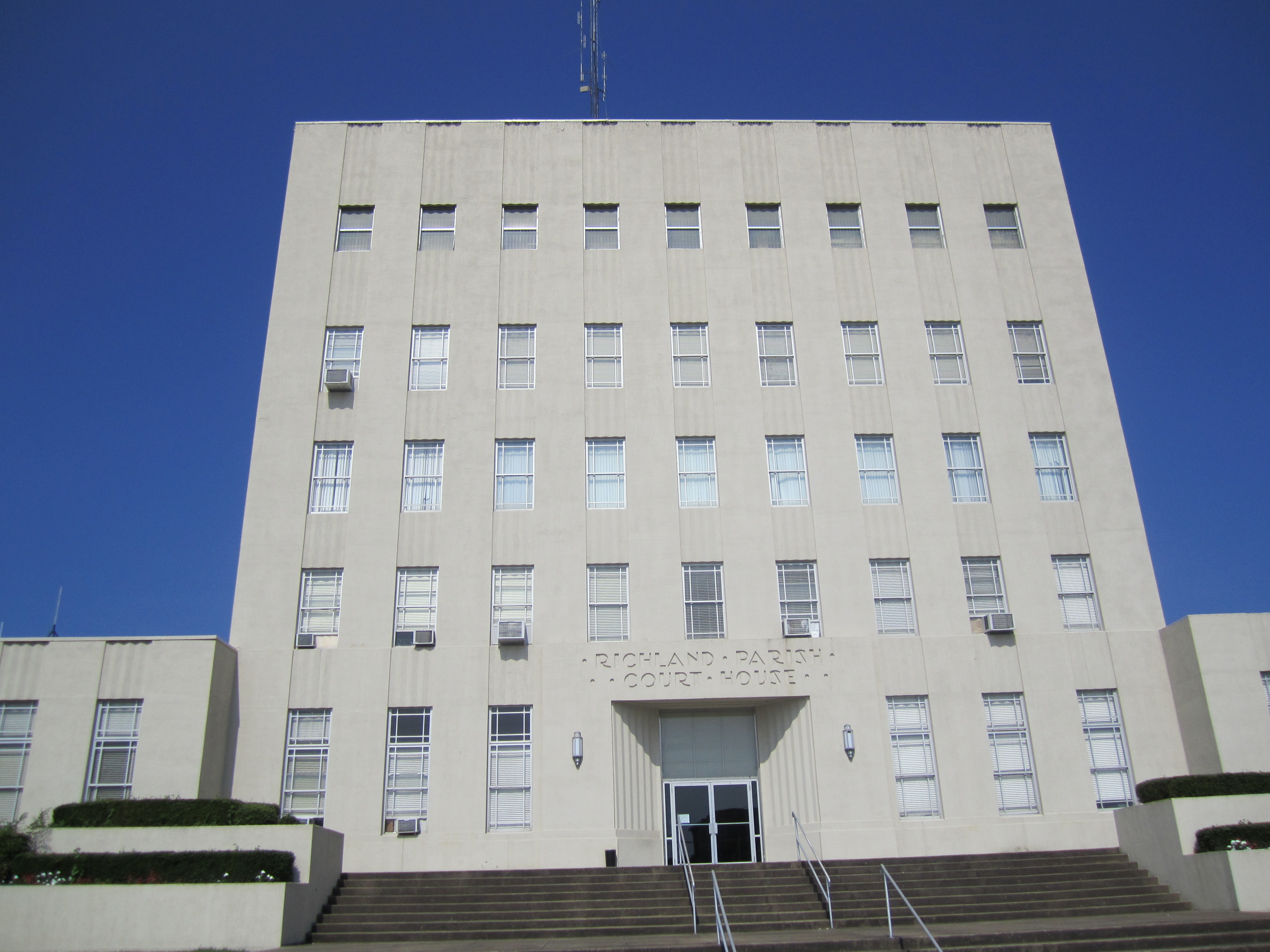 I took photo with Canon camera in Rayville, LA.